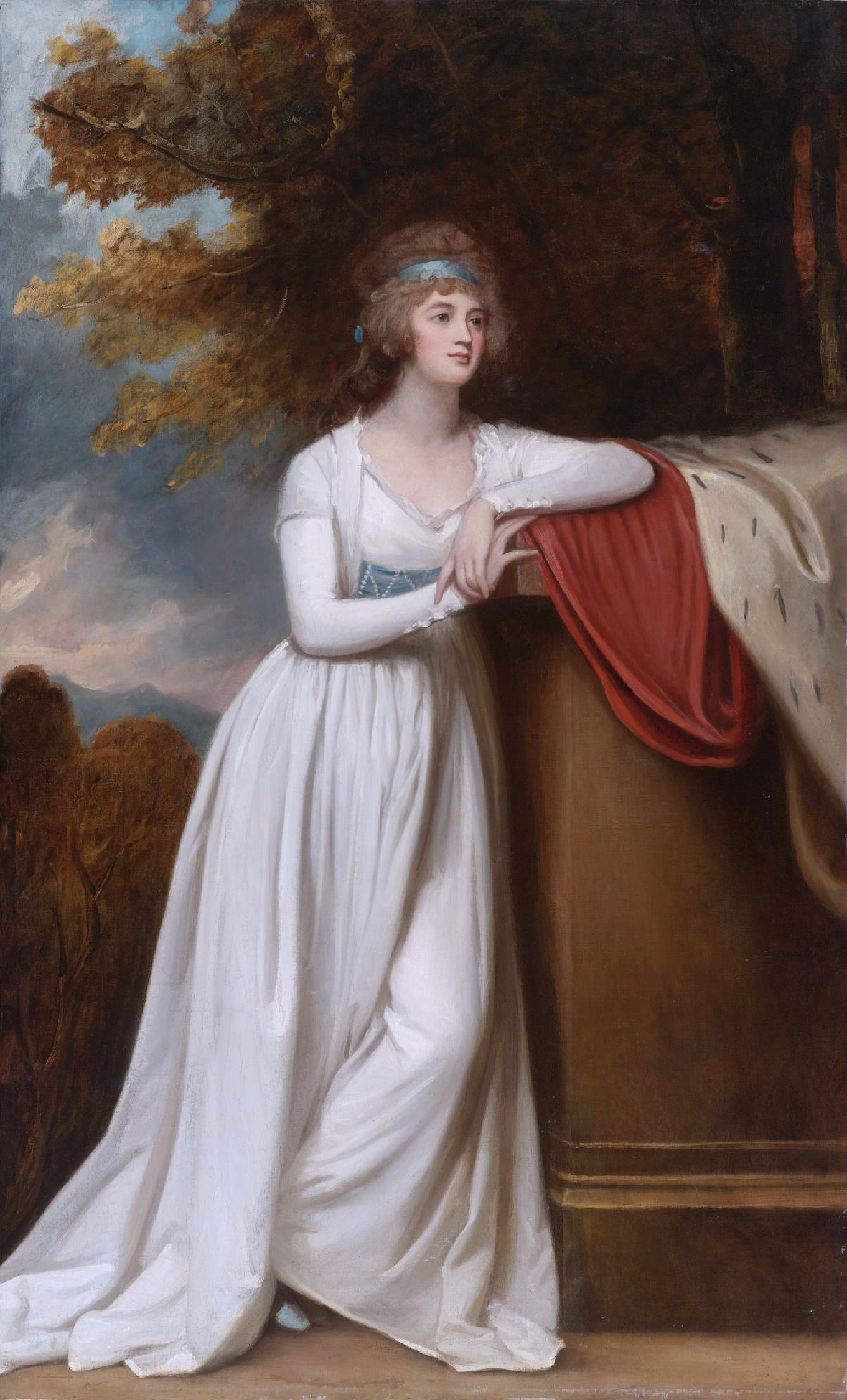 Barbara, Marchioness of Donegal, third wife to Arthur Chichester, 1st Marquess of Donegall oil on canvas 240.6 x 148.6 cm 24 March 1796